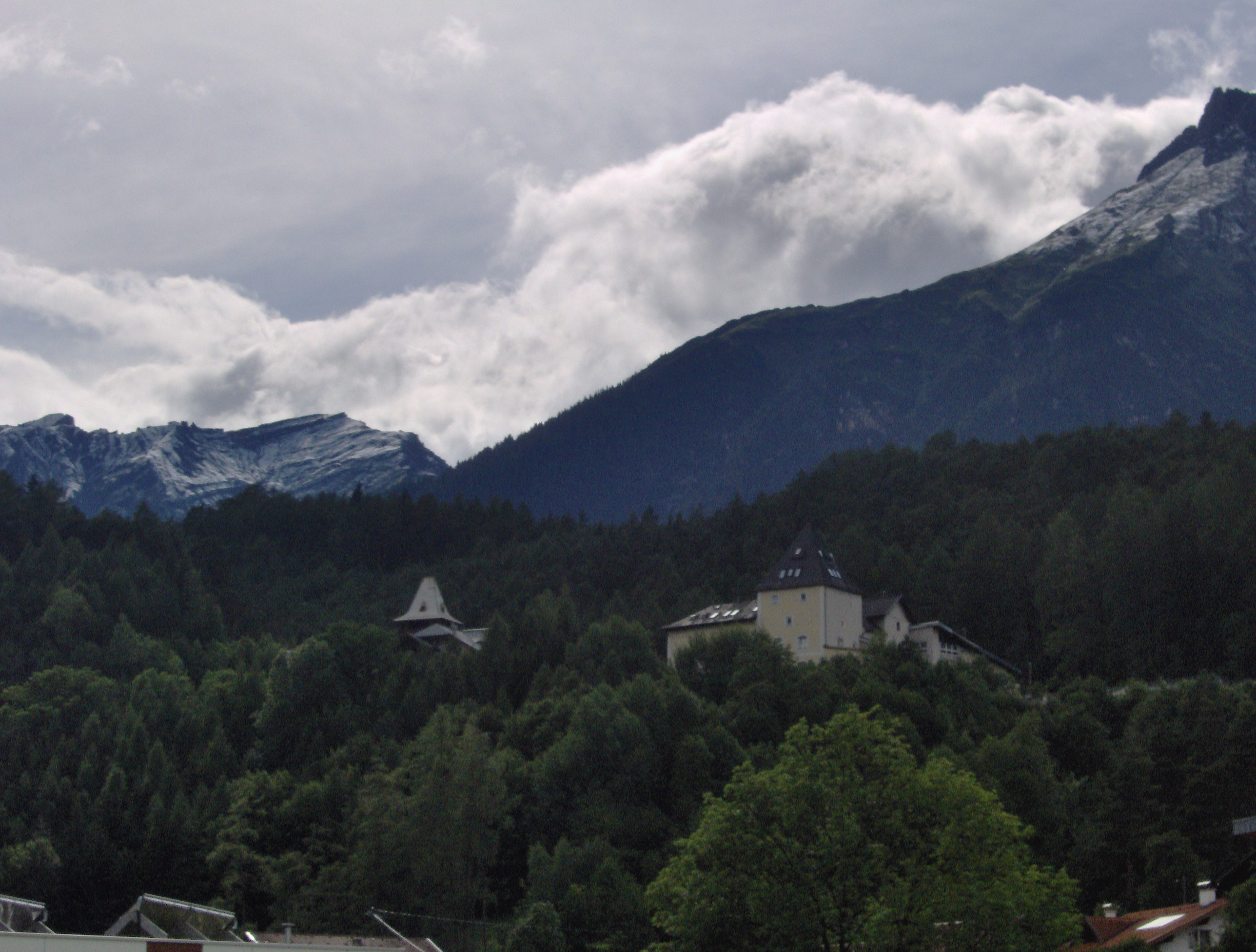 Schloss Starkenberg in July 2007, seen from Tarrenz, Tyrol, Austria